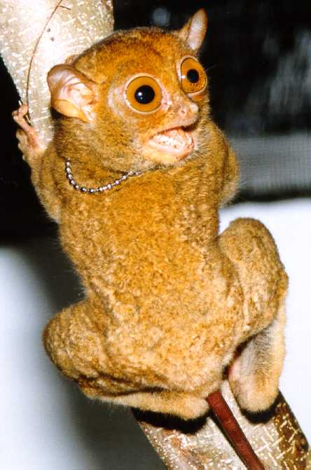 MT Abdullah. Tabdulla 11:50, 15 October 2006 (UTC)